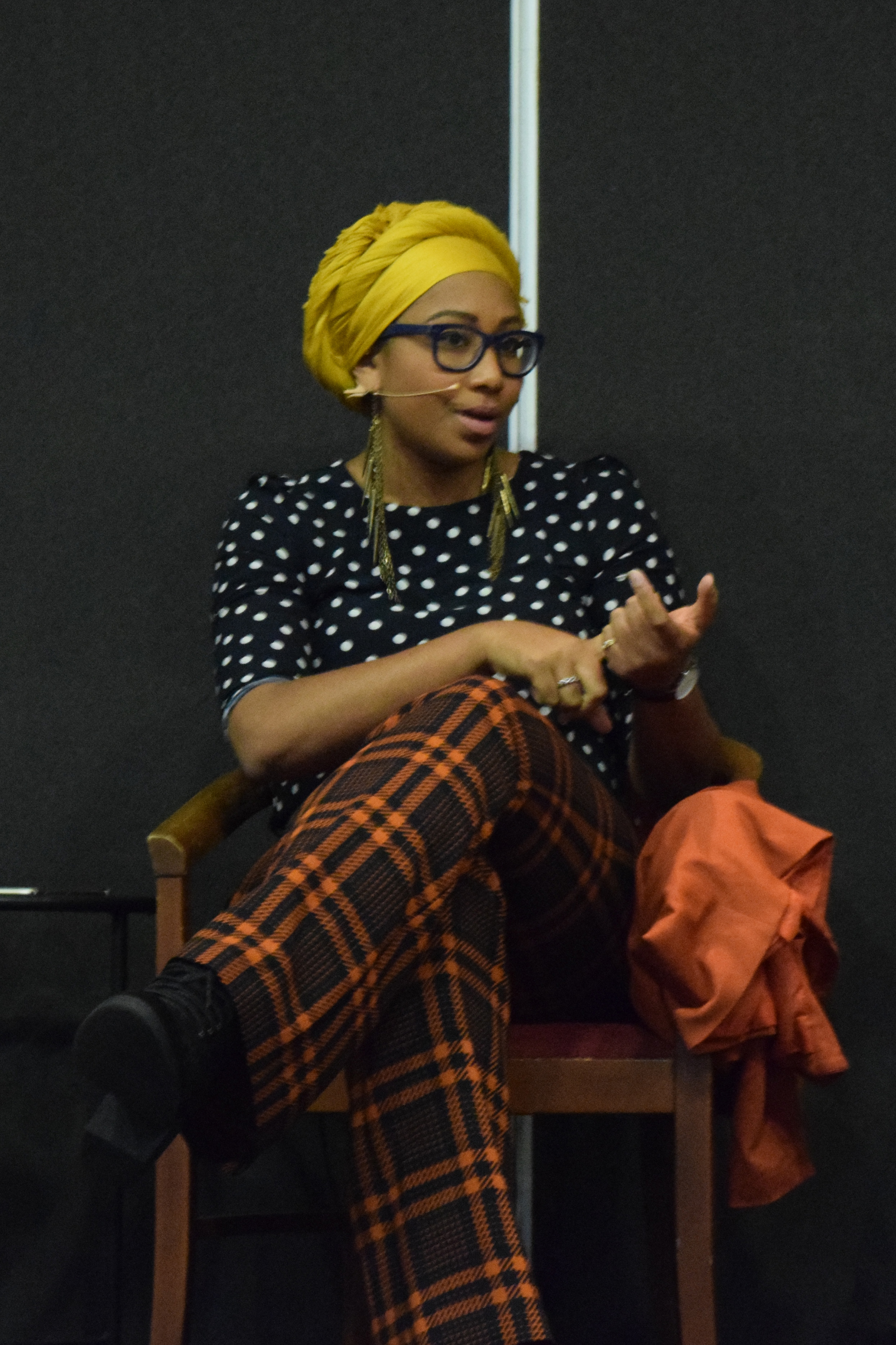 Yassmin Abdel-Magied at The Greek Club in West End on April 28, 2016 for the 'Australia in Transition' panel.